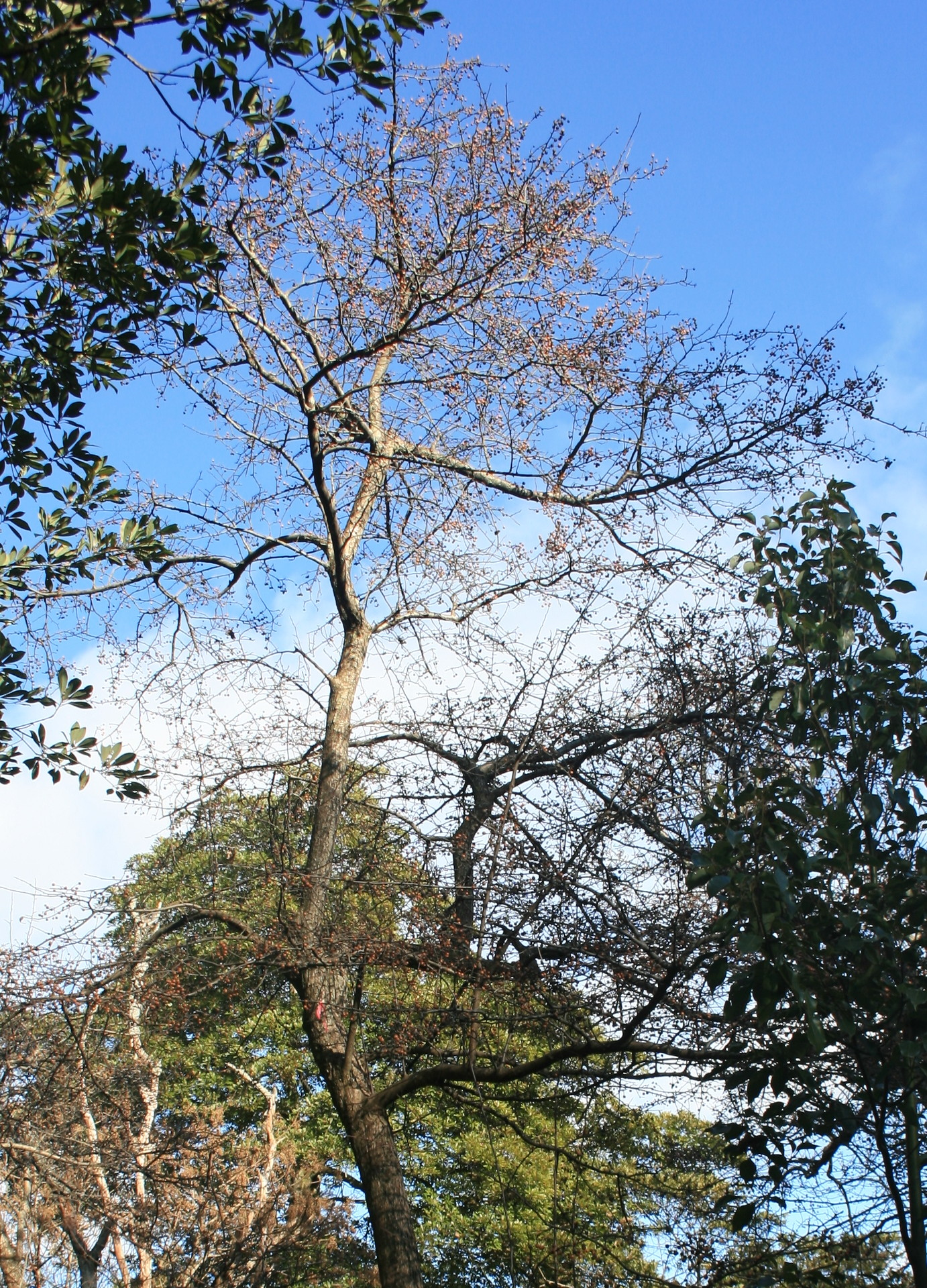 Callery pear (Pyrus calleryana Decne.) fruits in Mount Tado, Yōrō Mountains, Kuwana, Mie, Japan.